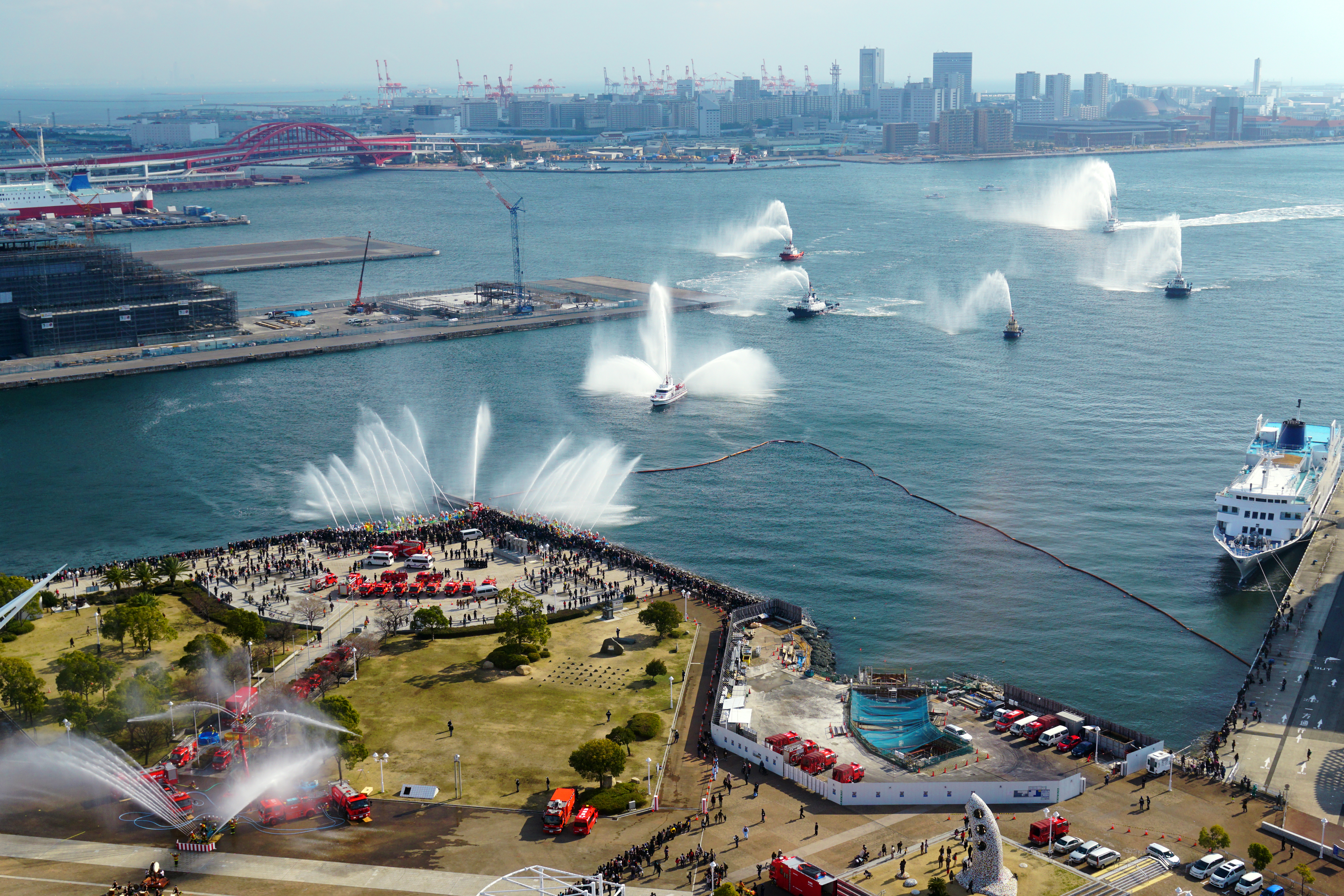 "Dezomeshiki" at Meriken Park, Kobe, Hyogo prefecture, Japan.